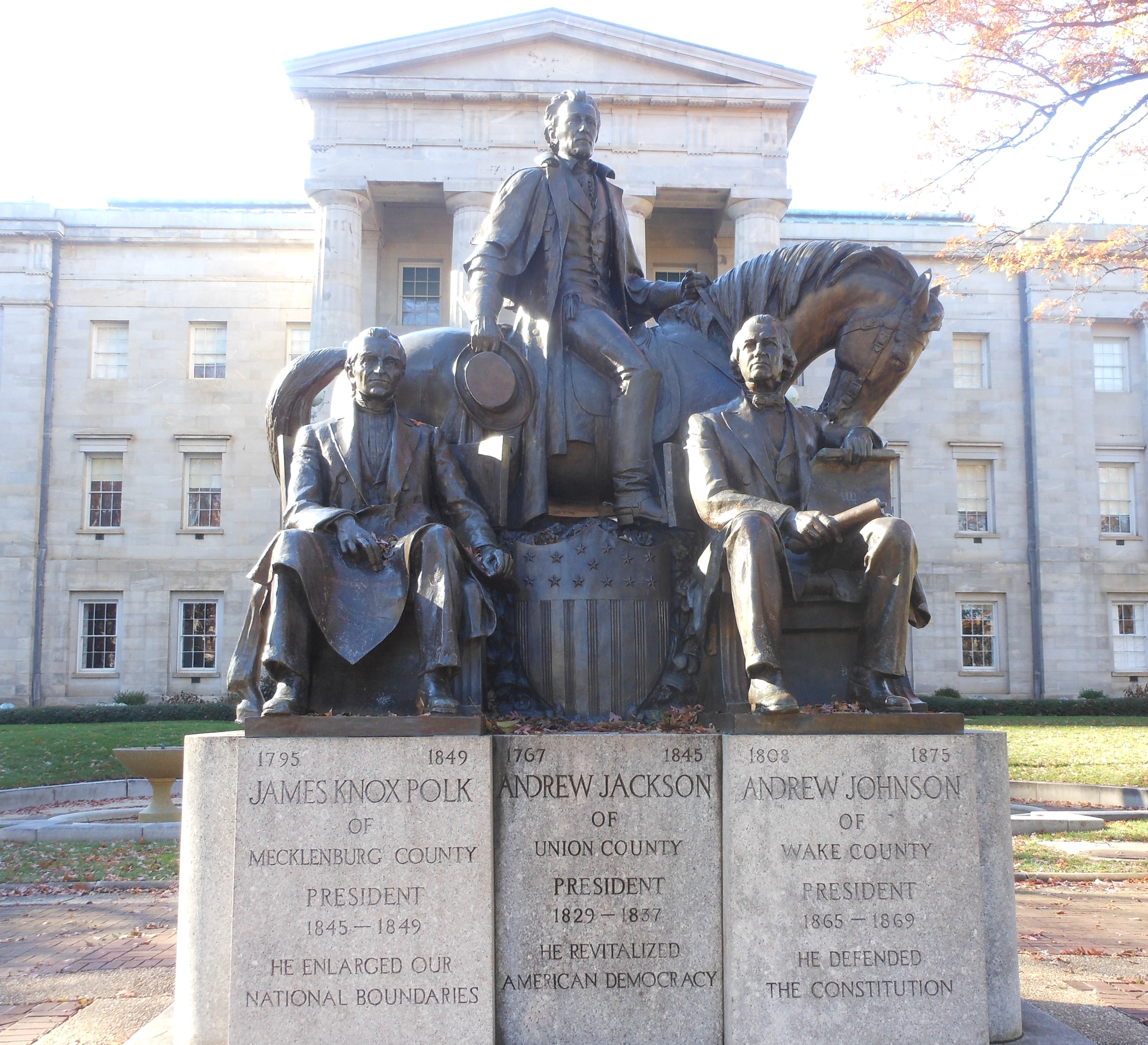 North Carolina Presidents Statue at state capitol in raleigh, nc.